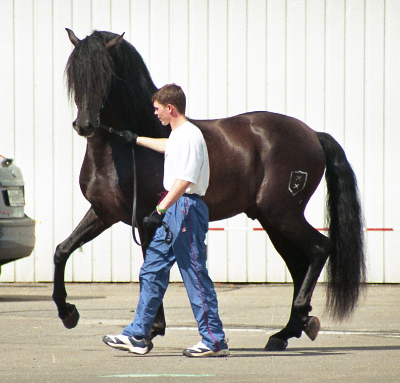 Andalusian stallion at Equiros horse fair in Moscow